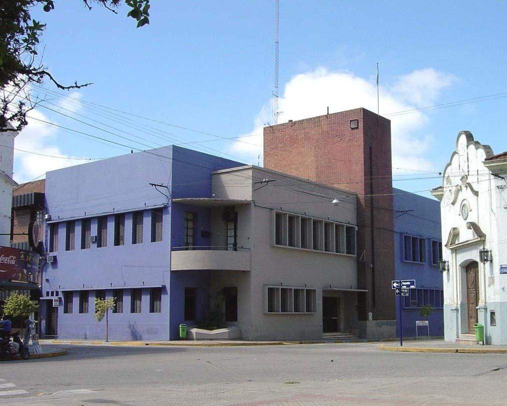 Municipality of Concepción